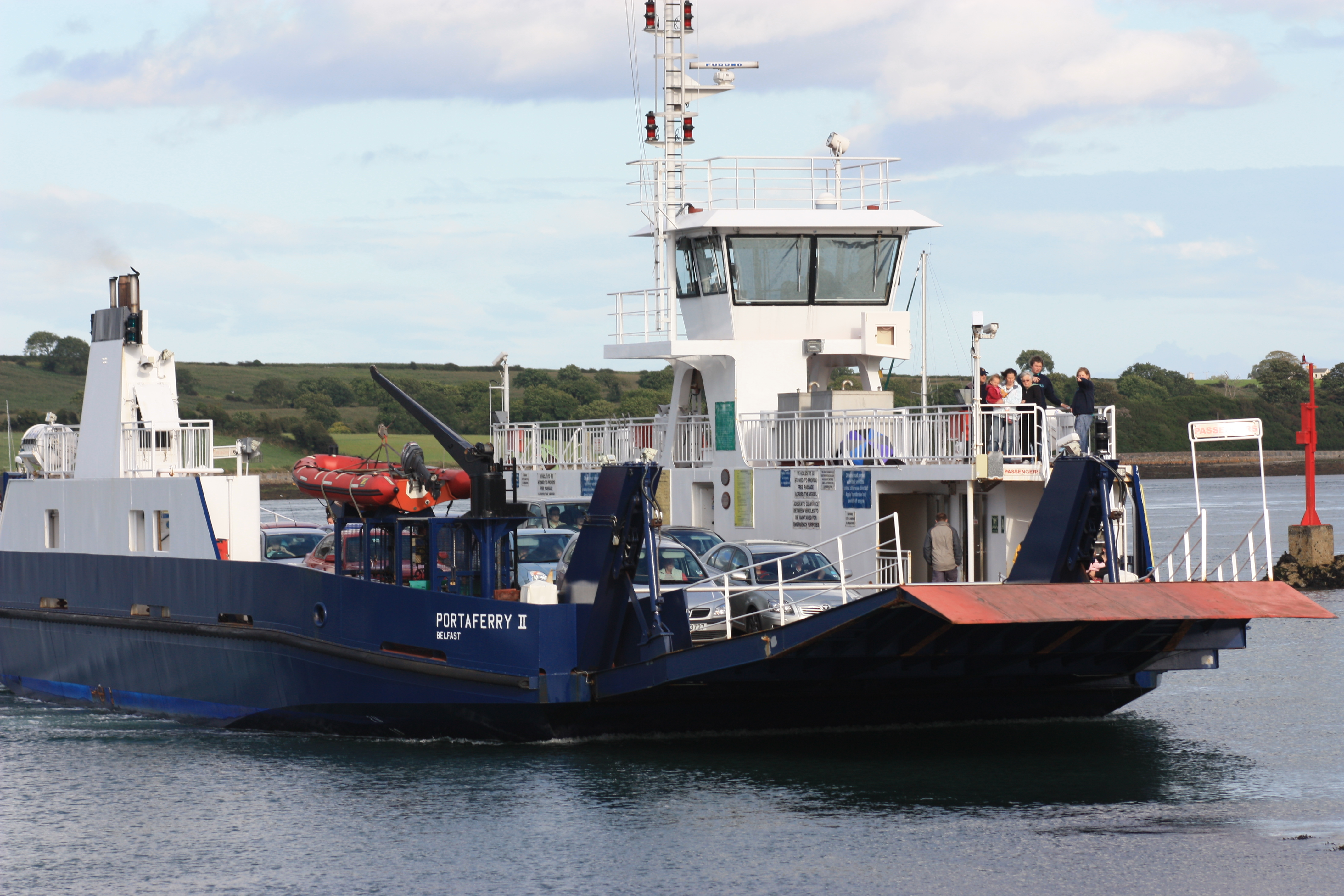 MV Portaferry II approaching Strangford, County Down, Northern Ireland, August 2009